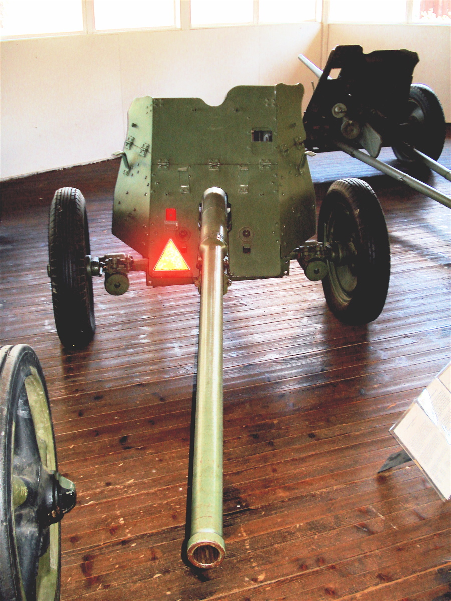 Soviet 45 mm Mark 1942 anti-tank gun, displayed in Finnish Tank Museum (Panssarimuseo) in Parola. Photo taken on July 14, 2006. Source: Photo by me, User:Balcer.